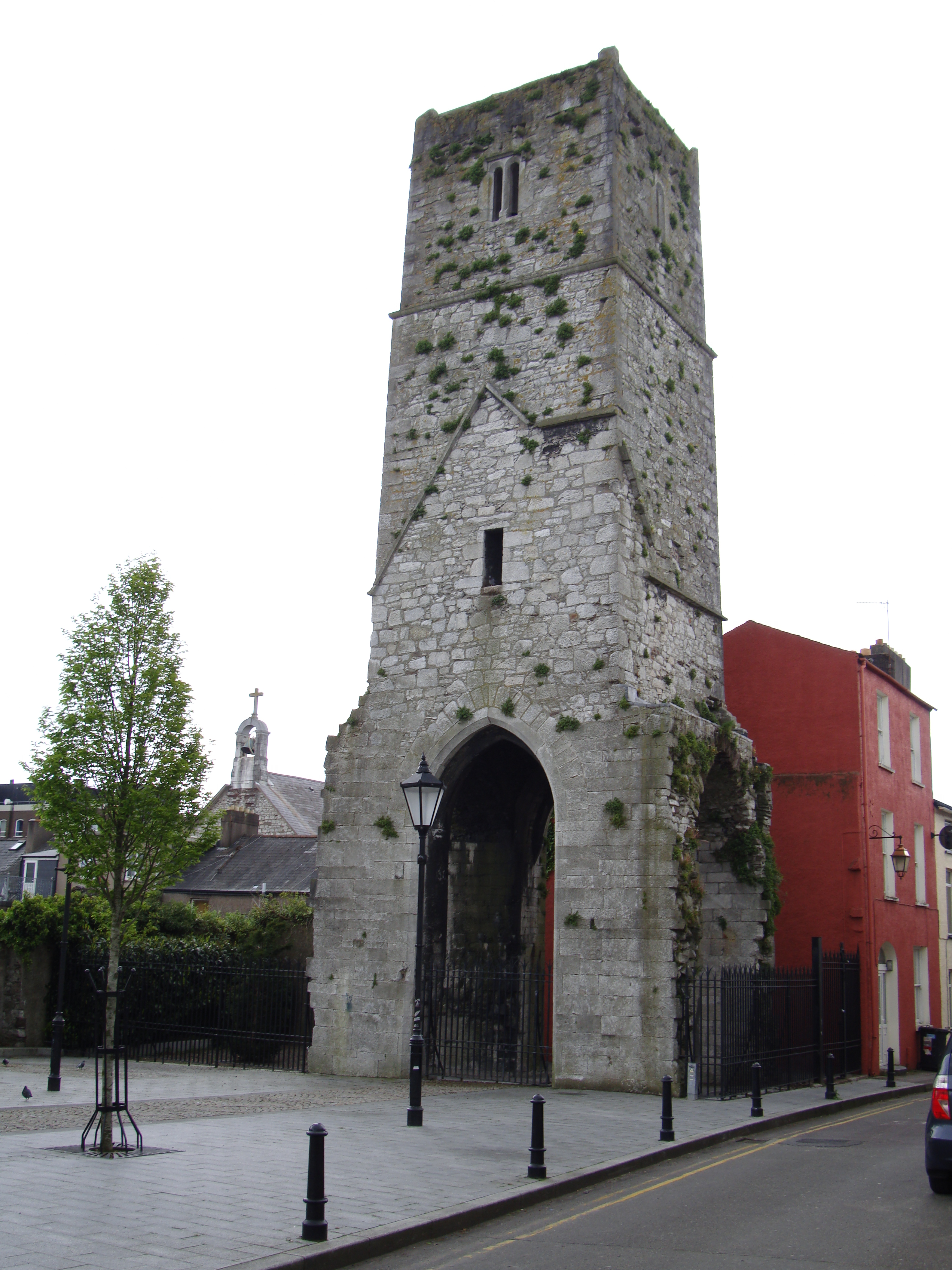 Photograph of Red Abbey Tower, Cork, Republic of Ireland